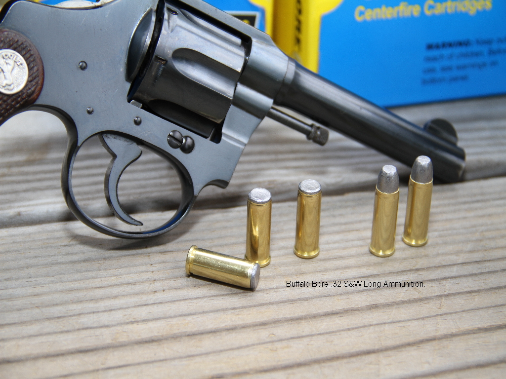 Modern High velocity loadings of the .32 S&W Long/Colt New Police. Several companies load traditional 98-grain round nose bullets in the 700 fps range. These Buffalo Bore loads and many traditional handloads deliver substantially more velocity. 100=grain wadcutter and 115 grain round nose flat point shown.